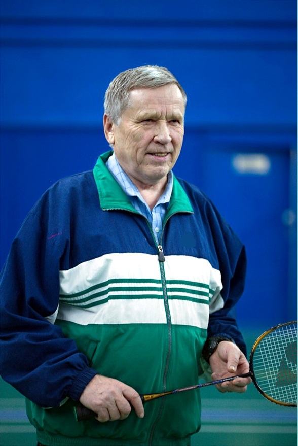 Pomytkin Viktor